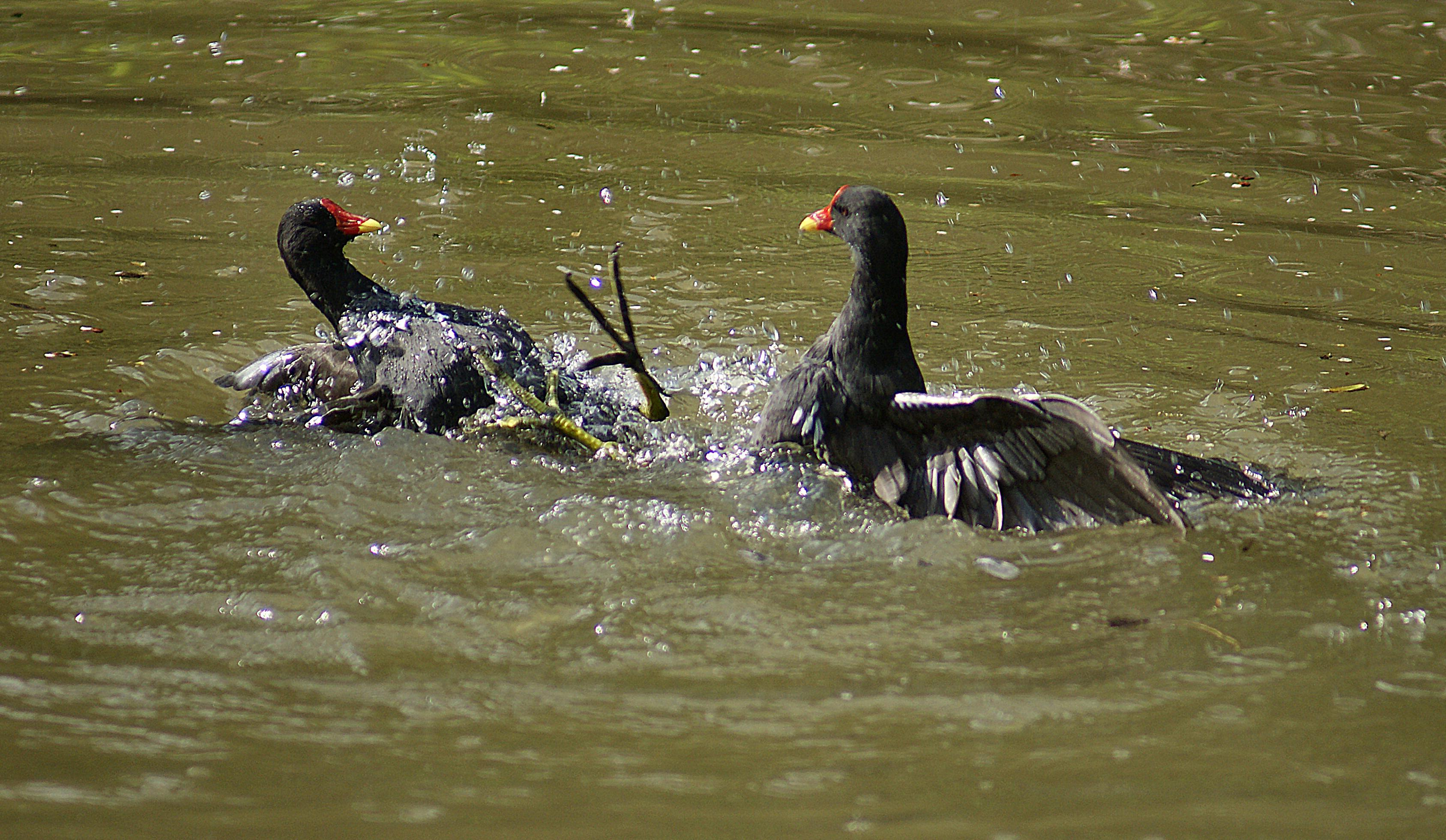 Pair of male Moorhens, Gallinula chloropus, fighting in the Kennet and Avon Canal, Bradford-on-Avon.